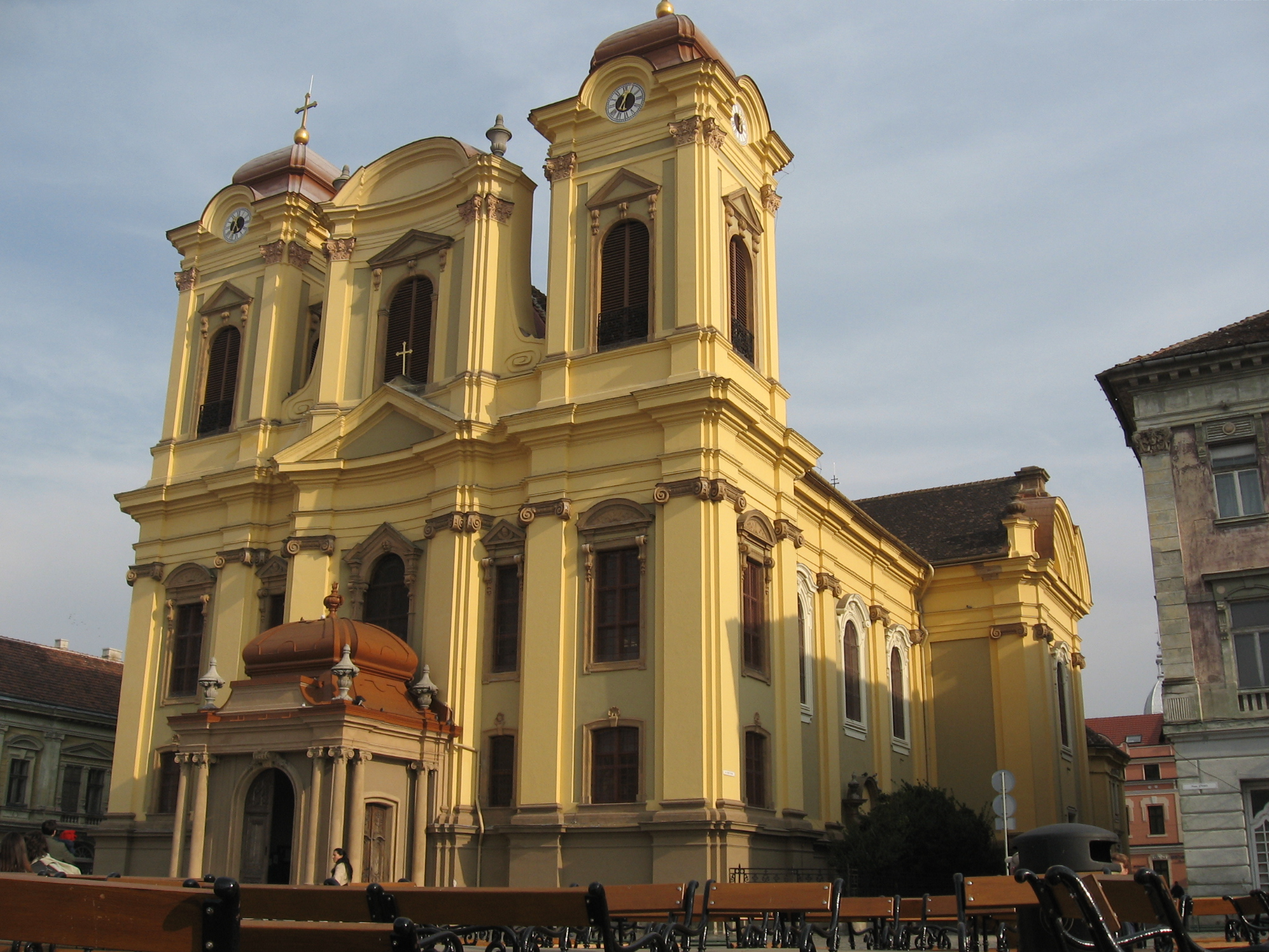 Timisoara Catholic Dome